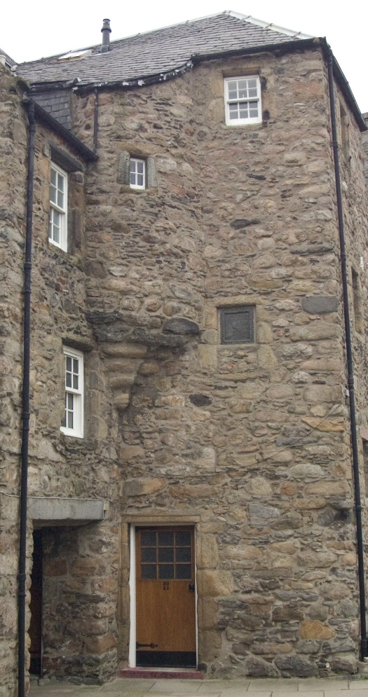 Bede House 25/1/2010 Summary Bede House 25/1/2010